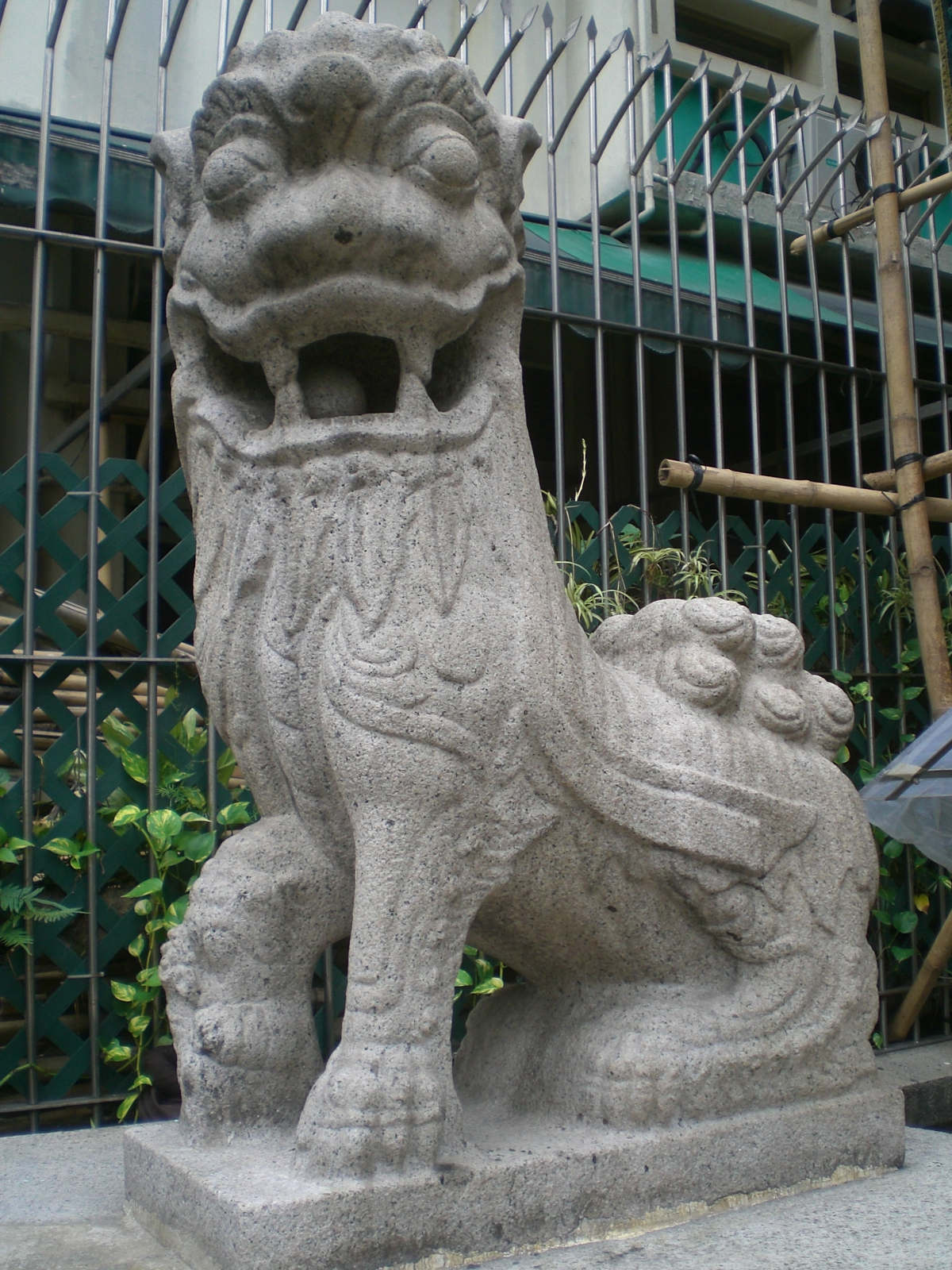 上環荷李活道東華三院文武廟